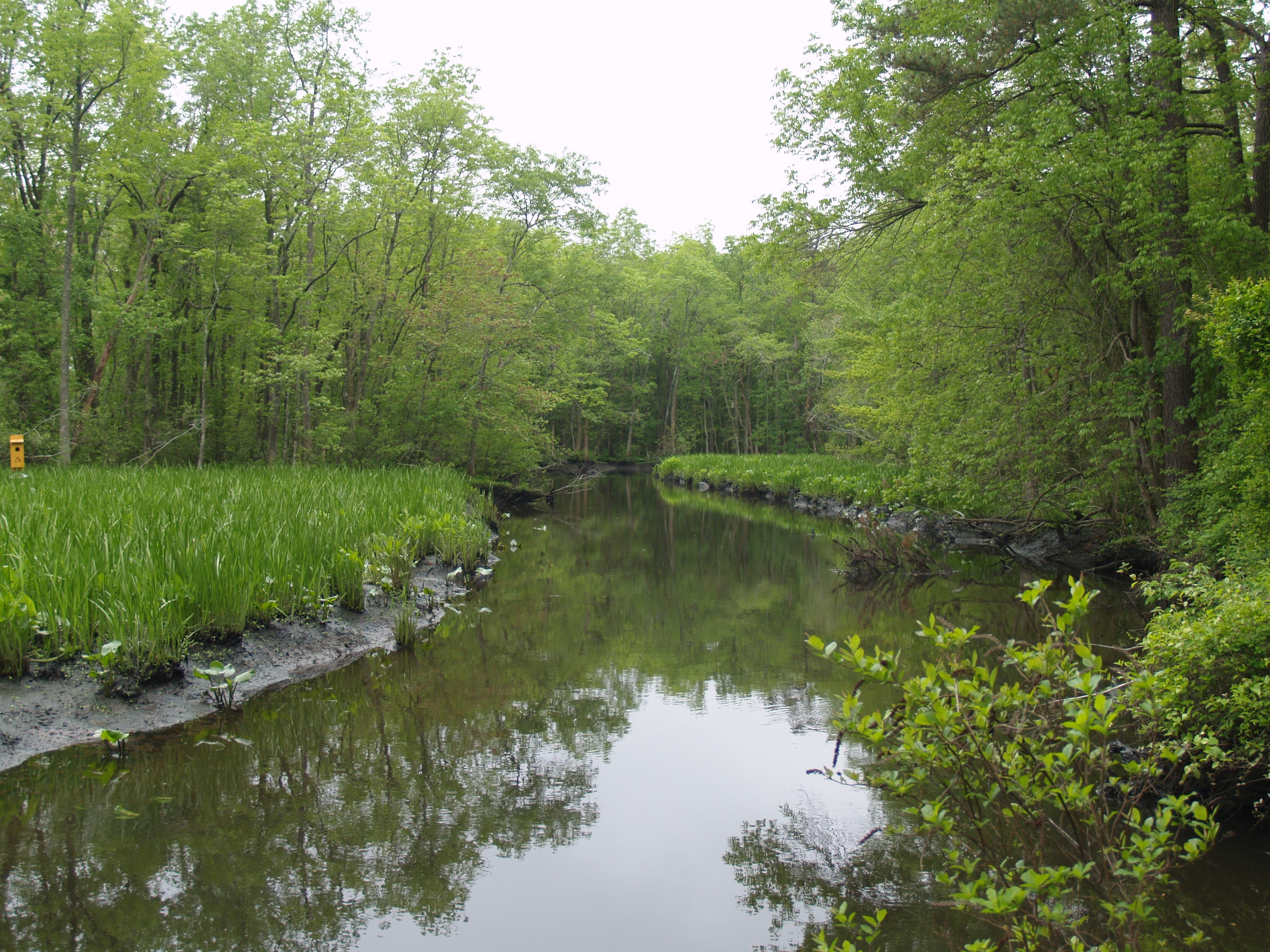 Wright Creek from Nanticoke Wildlife Area in Delaware. The image was taken in 2010.